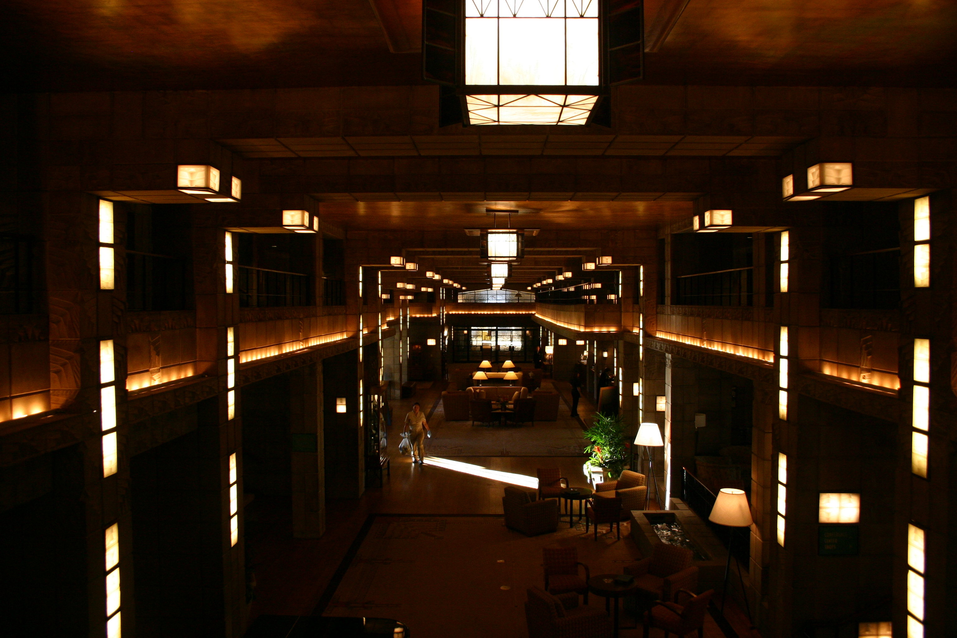 Lobby of the Arizona Biltmore